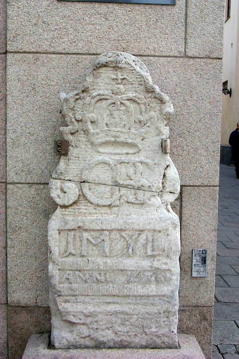 The milestone from 1676 in Malmö, Sweden.